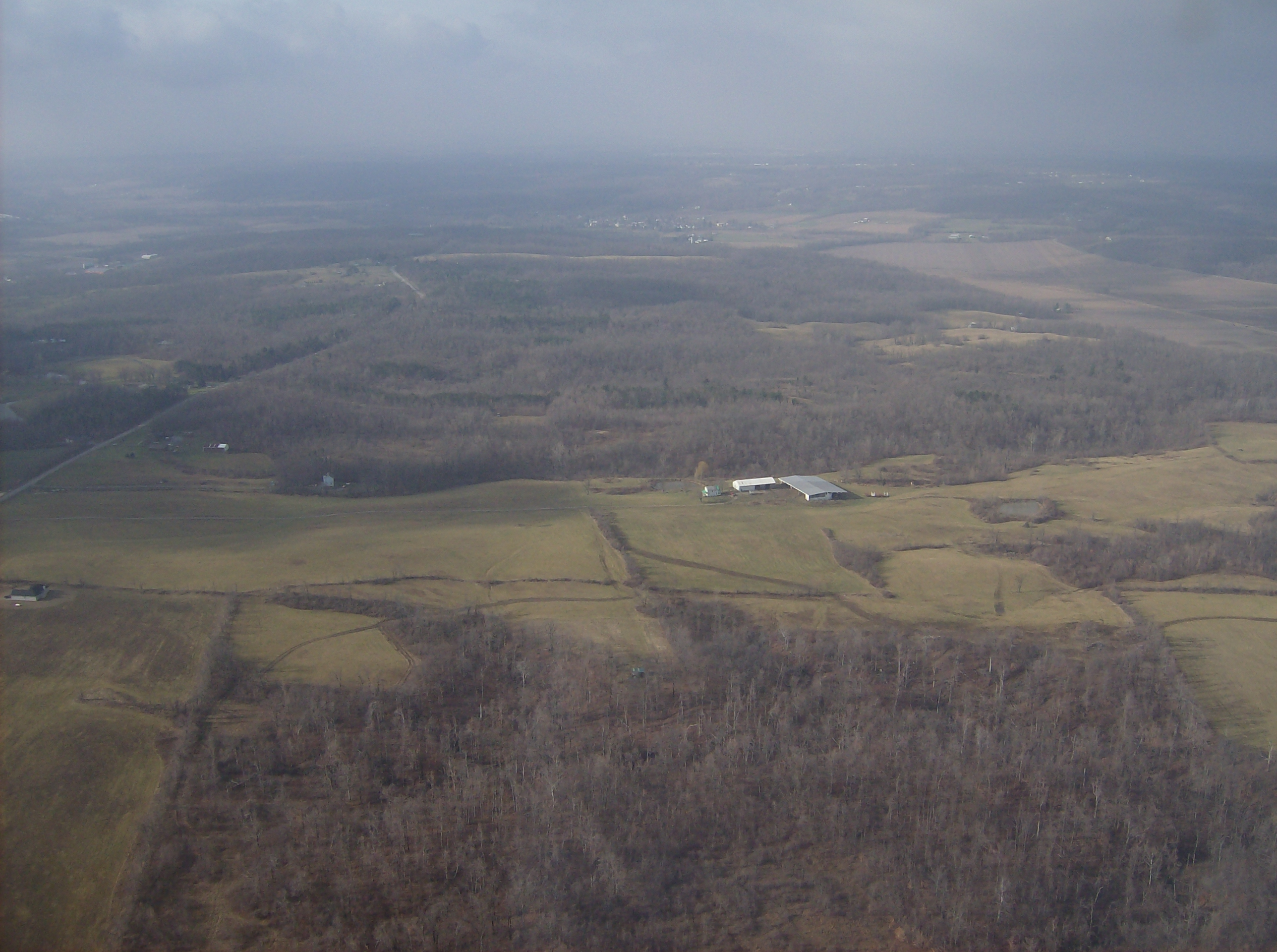 Hills and woods in central Jefferson Township, Logan County, Ohio, United States, northeast of the village of Zanesfield, taken from a Diamond Eclipse light airplane. Picture taken from an altitude of 2,500 feet MSL at an bearing of approximately 260º.